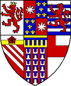 The Arms of Elizabeth Woodville